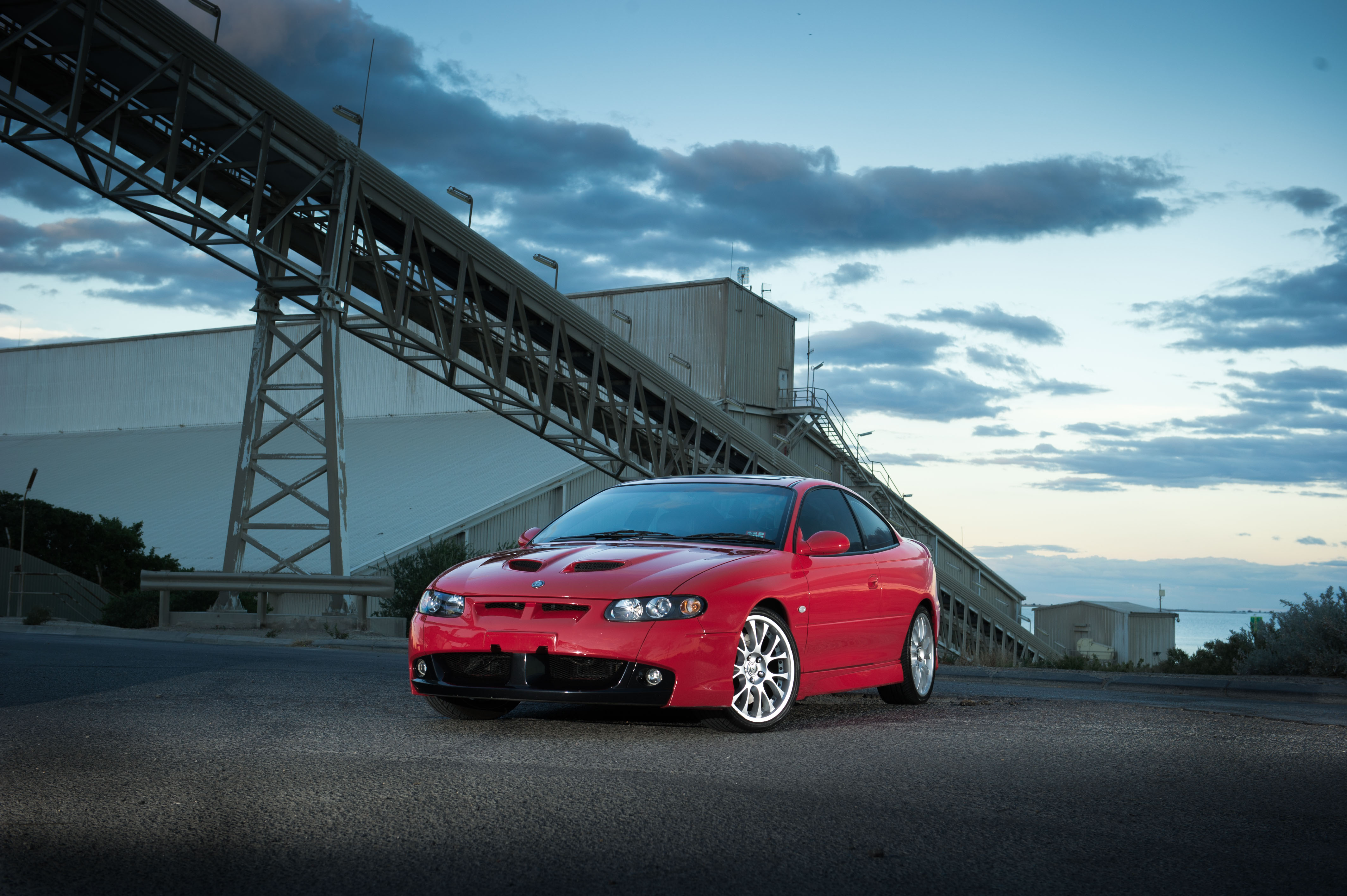 2006 HSV Signature Coupe